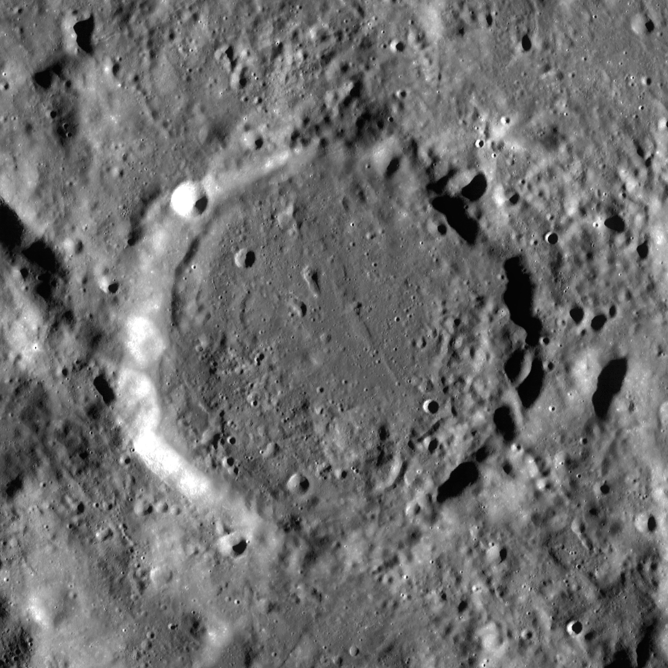 Crater Berzelius on the Moon, in Montes Taurus. Mosaic of photos by Lunar Reconnaissance Orbiter, made with Wide Angle Camera. Size of the image is 80×80 km, north is up.